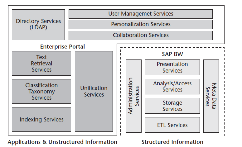 SAP BW Architecture